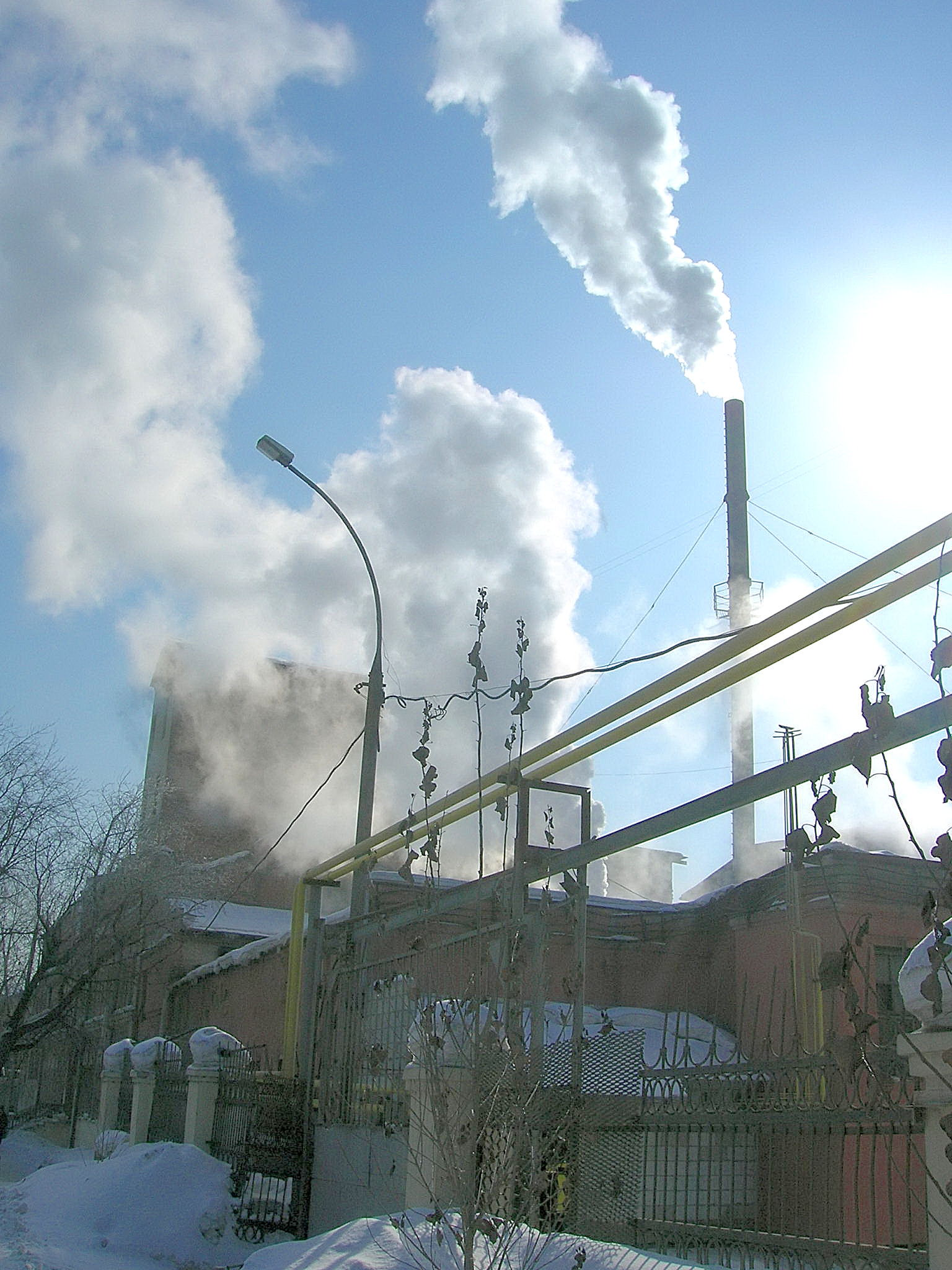 Industry, Novosibirsk